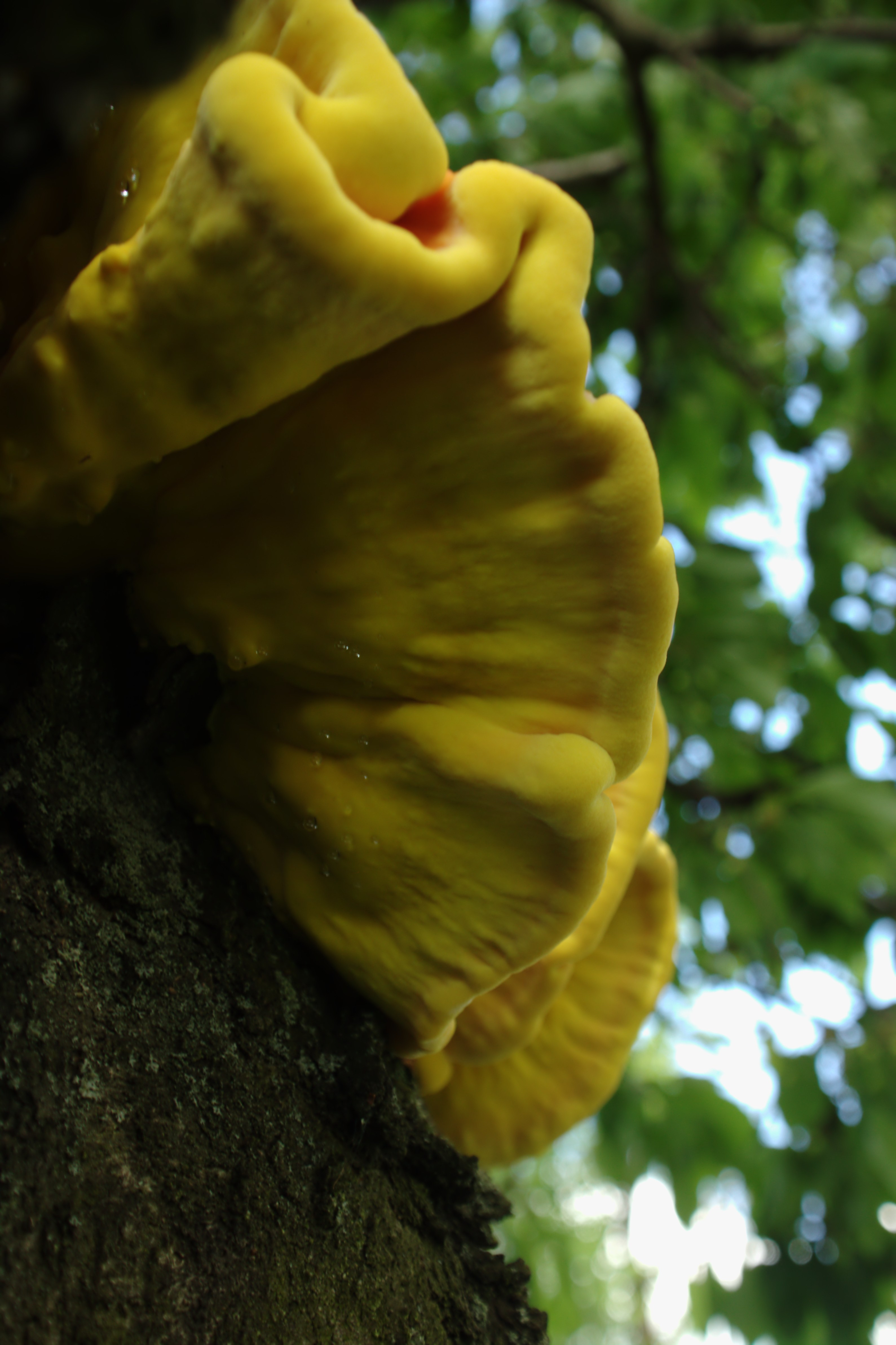 Laetiporus sulphureus near the village of Truskavny. This mushroom grows on a cherytree in an alley. Central Bohemian Region, CZ Project: Fotíme Česko